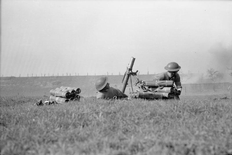 3-inch mortar of the 8th Royal Scots under enemy fire during the Rhine crossing, 24 March 1945.